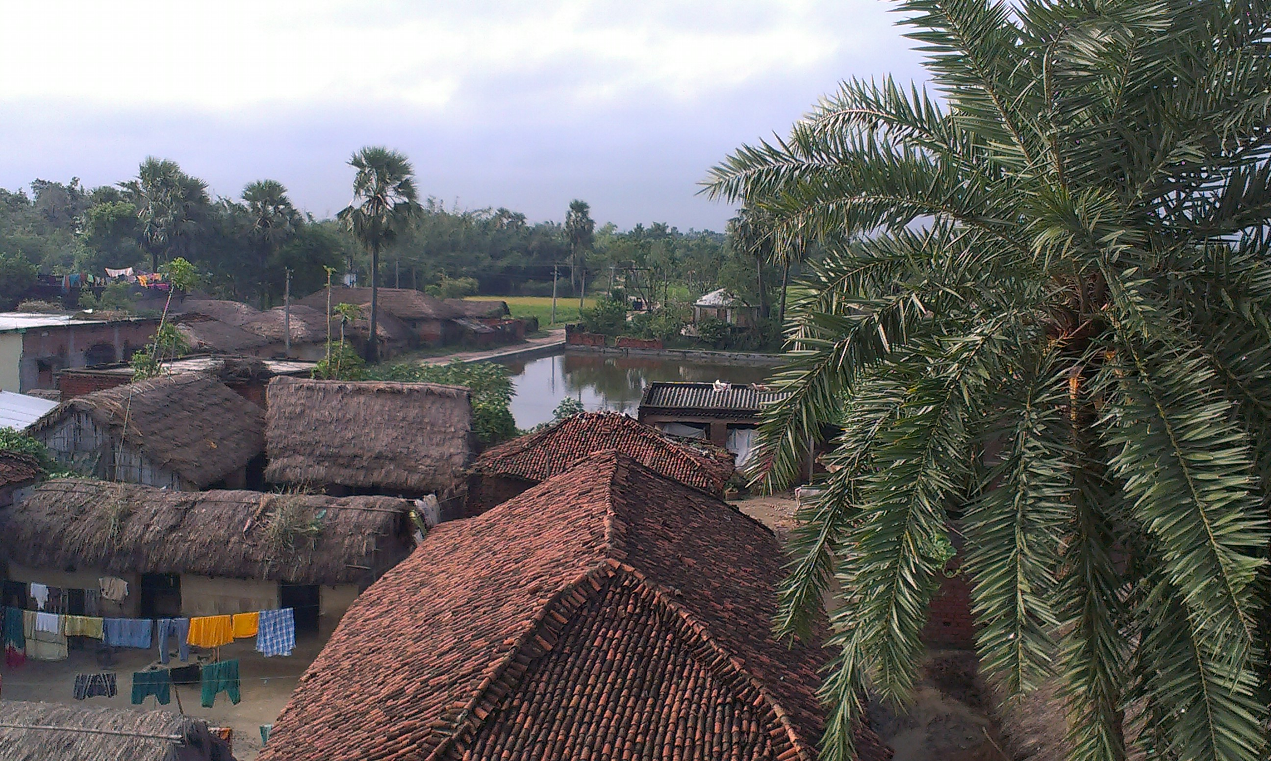 Lilpur village house condition. Lilpur Village